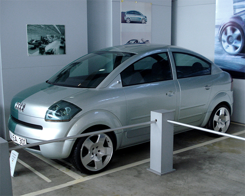 Early prototype of the Audi A2 at Autoworld car museum in Brussels